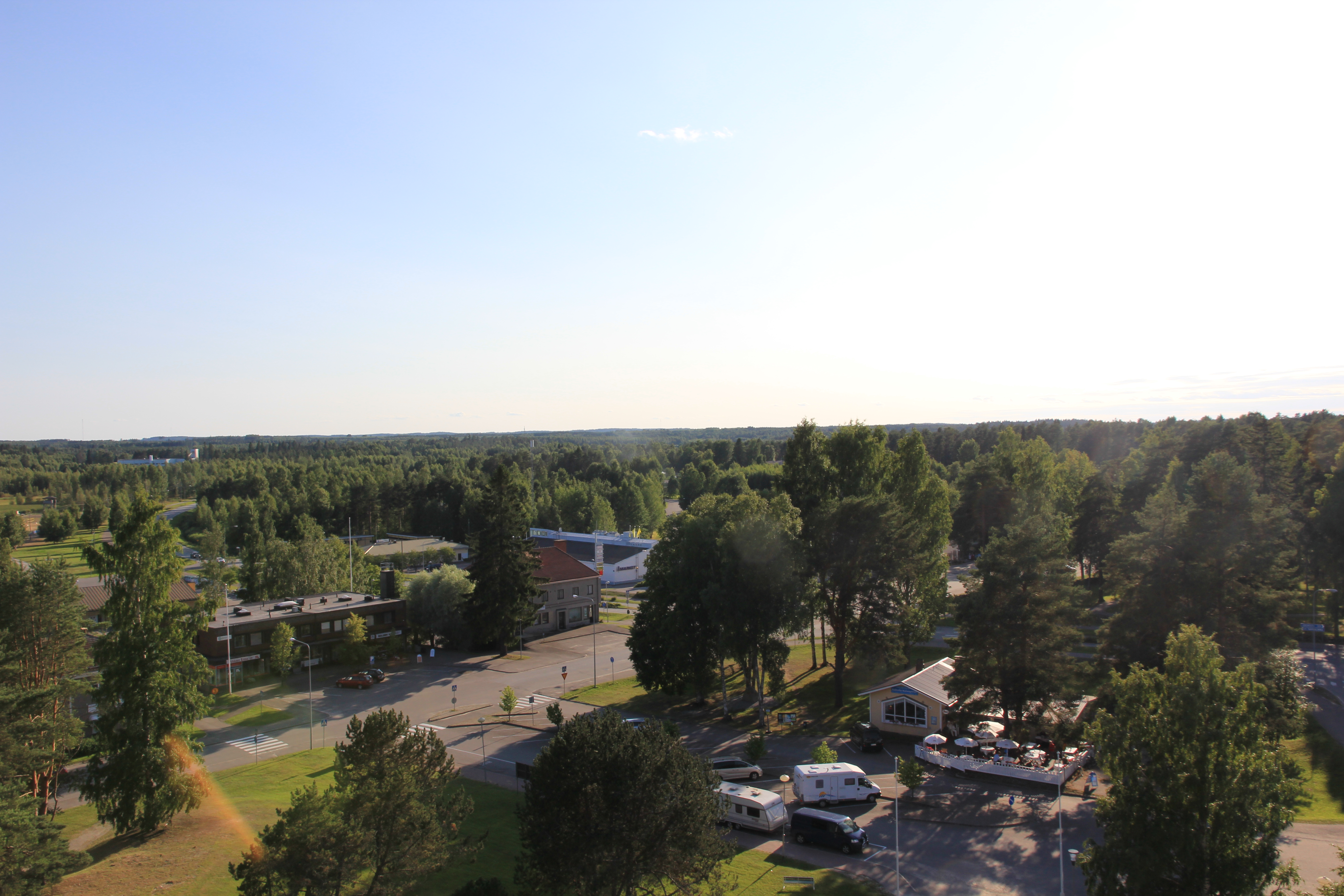 Kerimäki photographed from the church bell tower towards west.